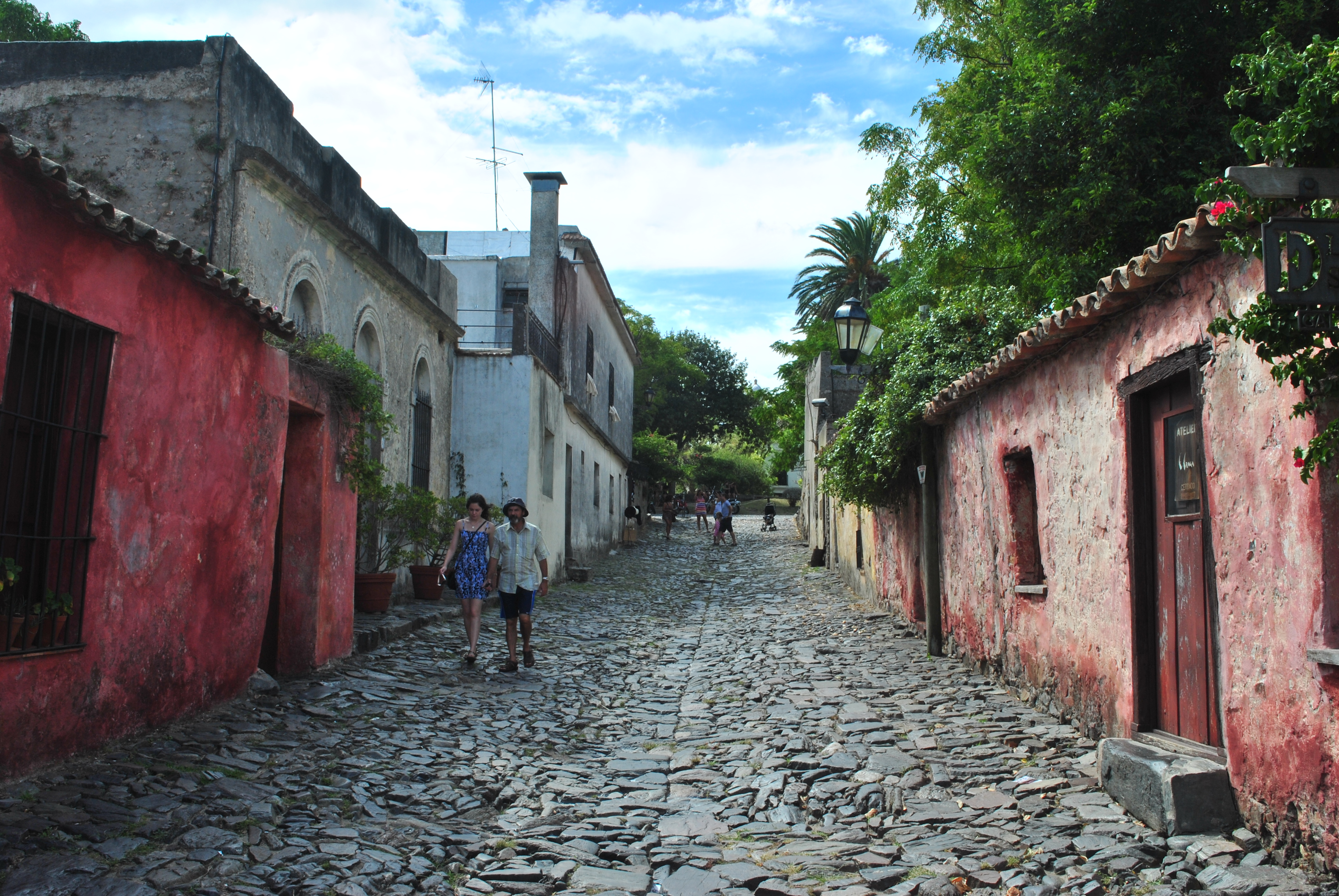 Street "Calle de los suspiros" in Colonia del Sacramento, Uruguay.